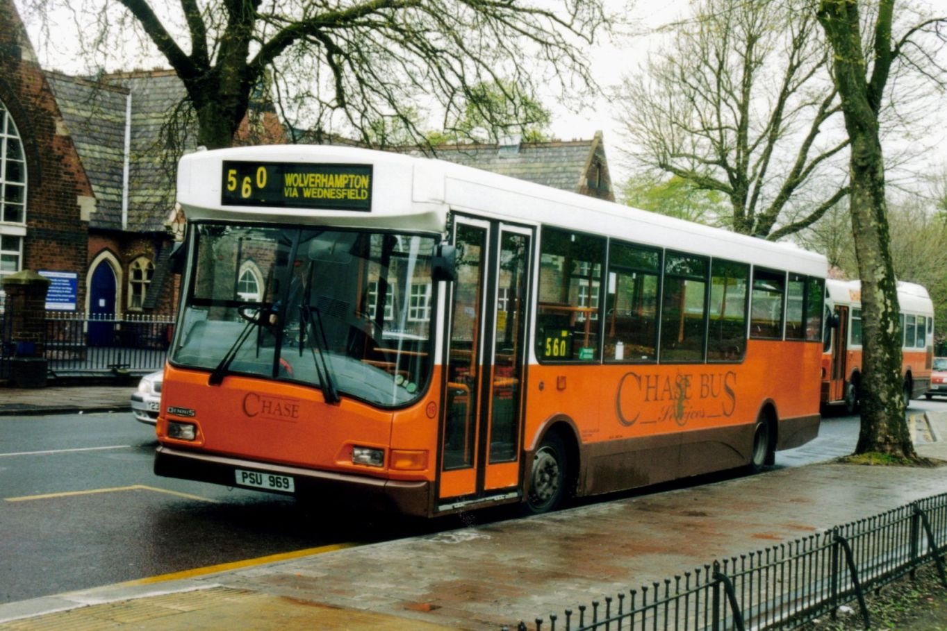 Chase Bus Services 19 (PSU 969, originally S407 JUA), a 1998 Dennis Dart SLF/UVG, at Bloxwich in April 2003. It is now owned by Arriva Midlands, after they took over Chase.